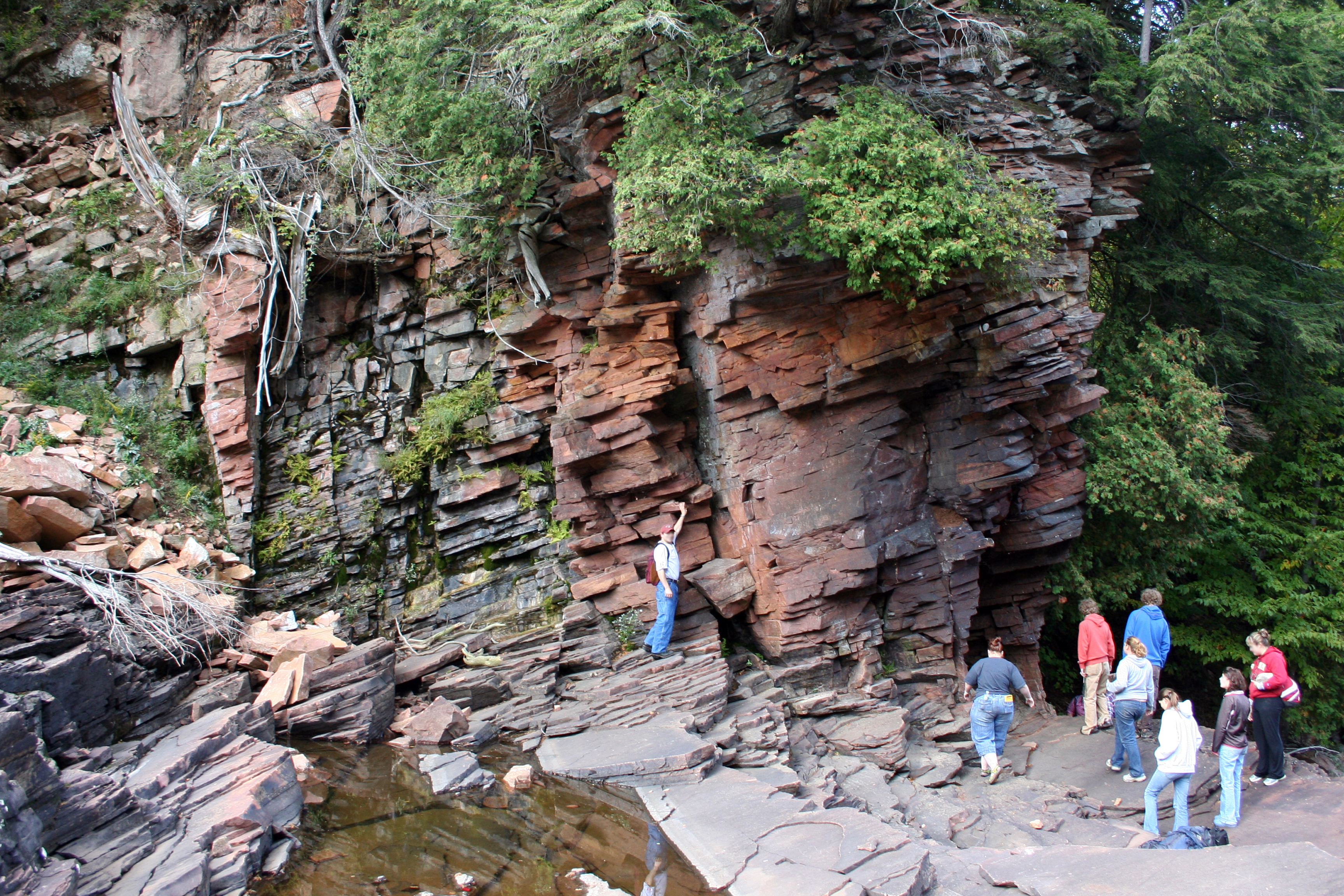 Outcrop of the Potsdam Sandstone (Cambrian) along the Raquette River, just north of Hannawa Falls, NY. Early Paleozoic sedimentary rocks in this area are nearly horizontal; the inclined layers in this image are large cross-beds.